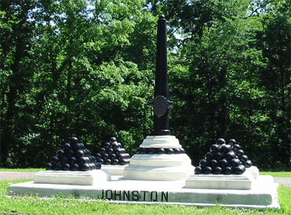 Monument to Albert Sidney Johnston at Shiloh National Military Park. Photograph by J. Williams. (May 17, 2003).